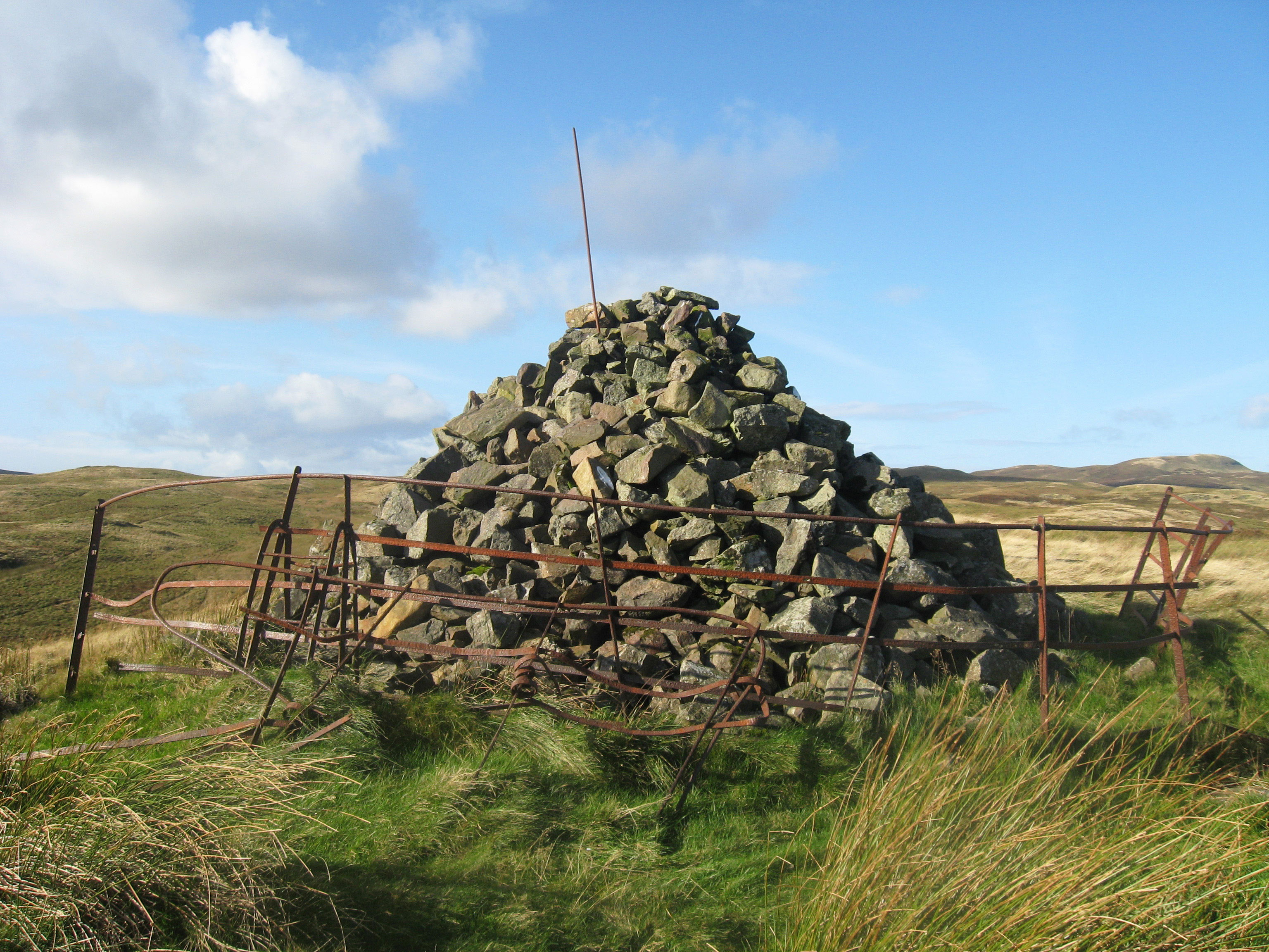 cairn on Auchenbourach Hill commemorating Cochran-Patrick of the Barony of Ladyland.